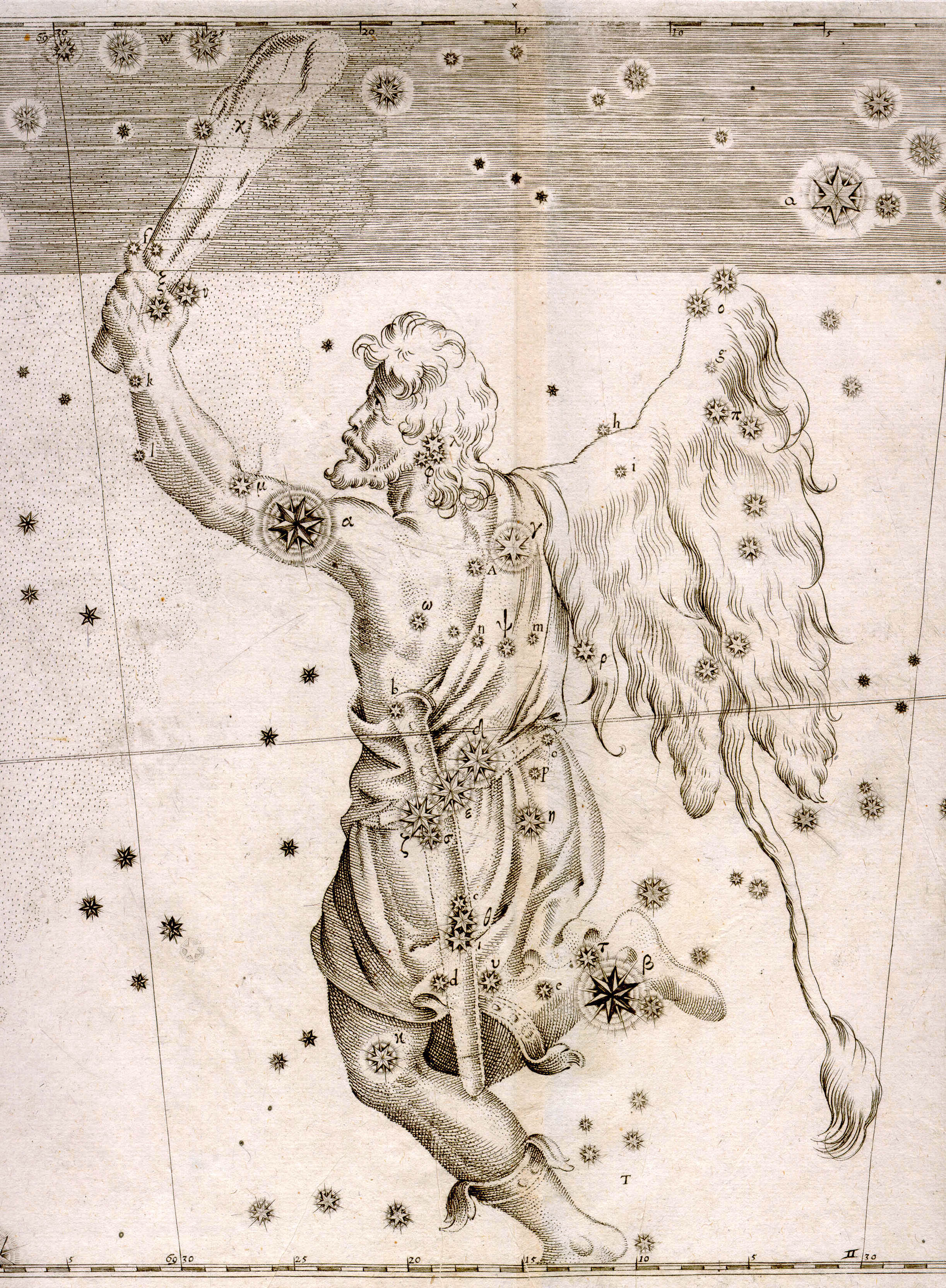 A print of the copperplate engraving for Johann Bayer's Uranometria showing the constellation Orion. This image is courtesy of the United States Naval Observatory Library, who gives explicit permission to use it so long as the attribution is attached.